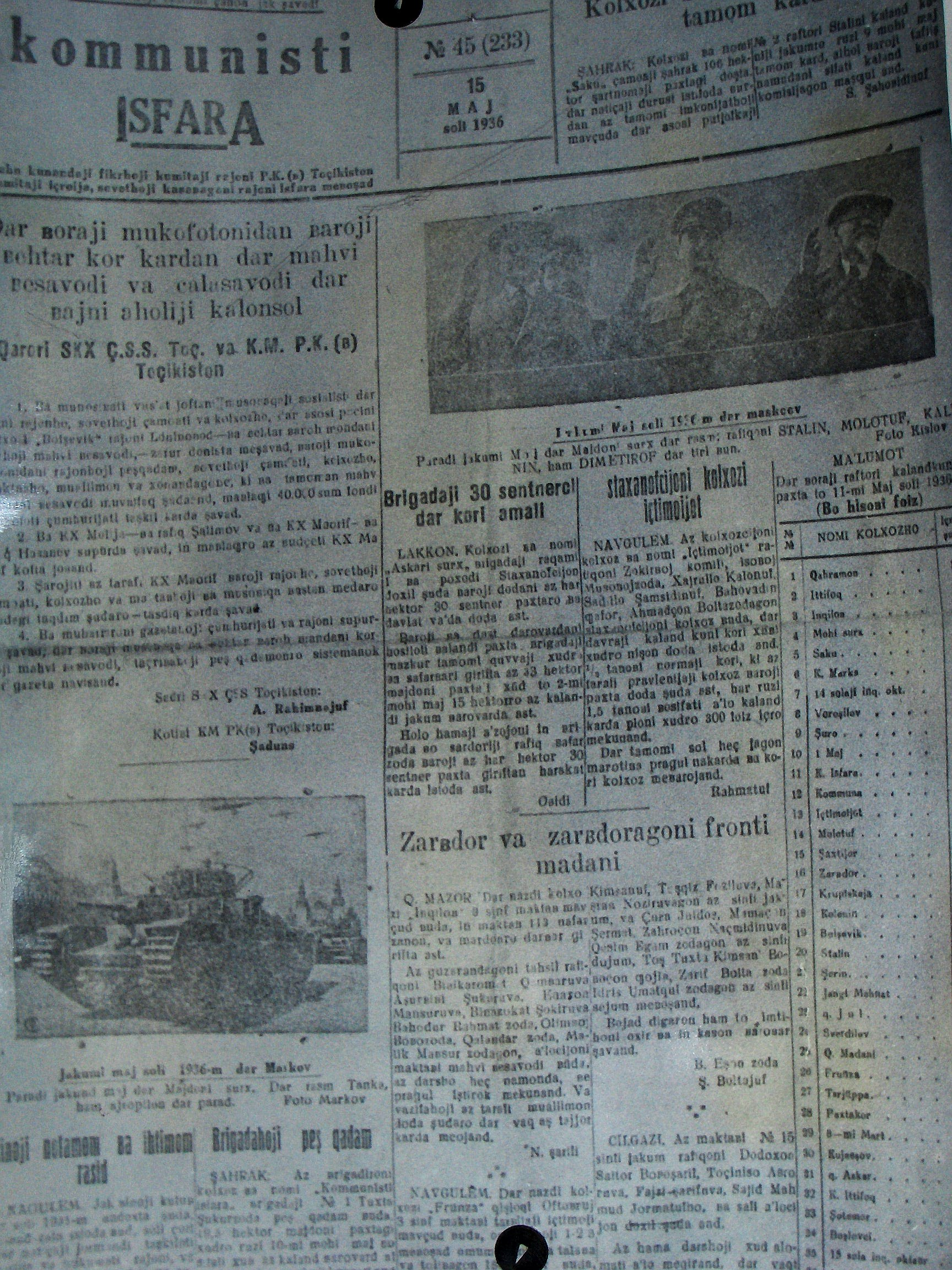 Modified from Image:Nasimi isfara (3).JPG by Ibrahim Rustamov.